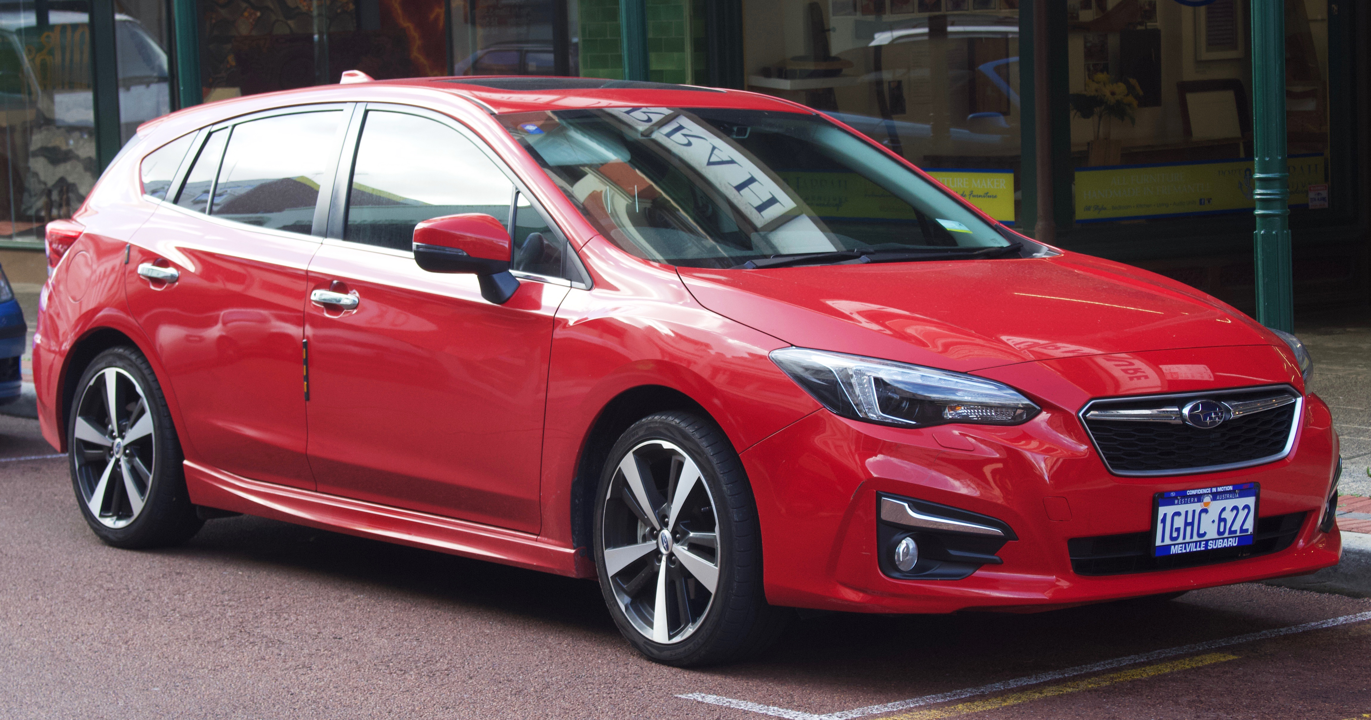 2017 Subaru Impreza (GT7) 2.0i-S hatchback. Photographed in Fremantle, Western Australia, Australia.